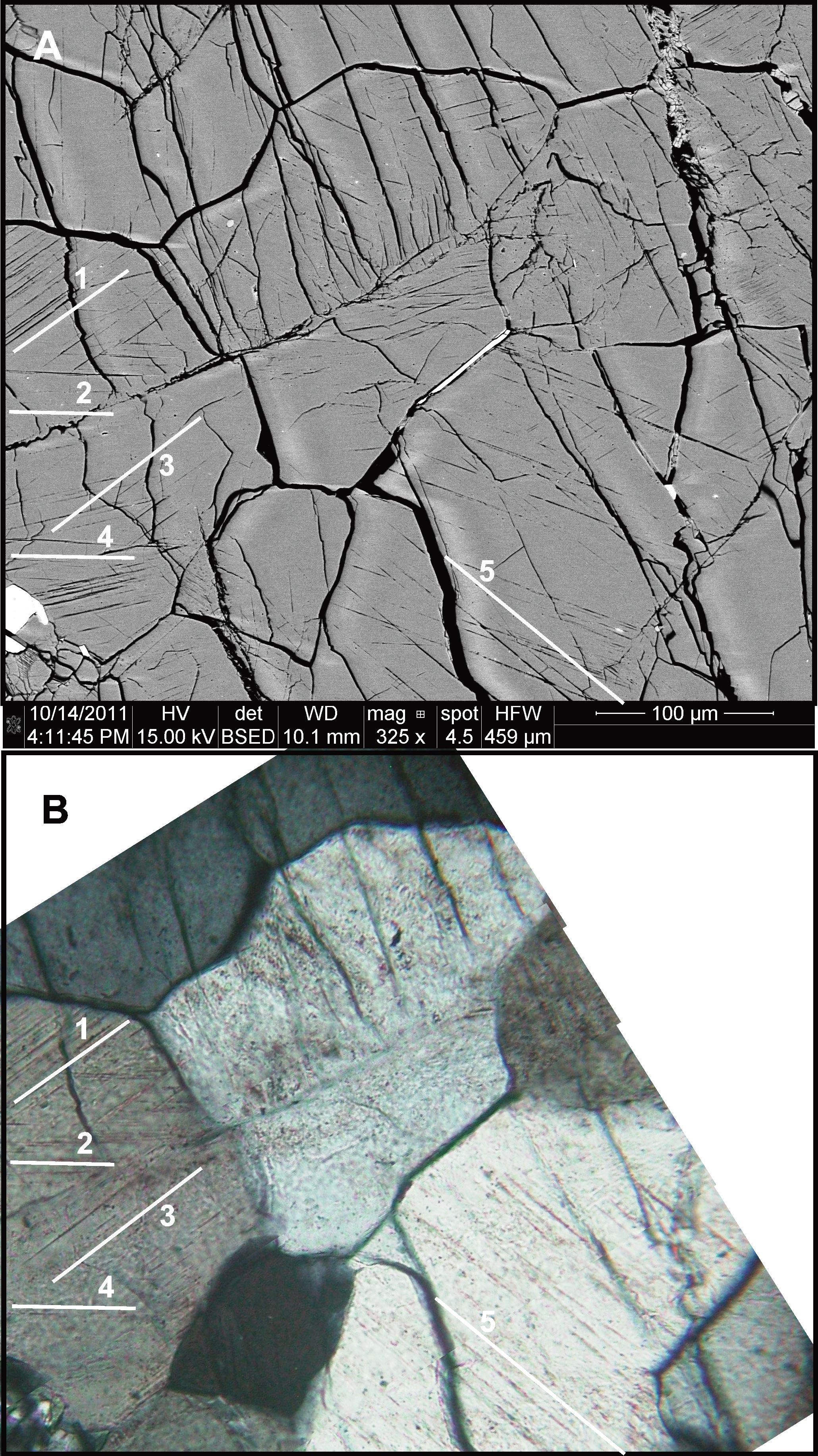 Planar deformation features under the scanning electron microscope and optical microscope (U-stage) from the Bosumtwi impact crater. Source: Losiak et al. 2016. WIP: A Web-based program for indexing planar features in quartz grains and its usage. Meteoritics and Planetary Science